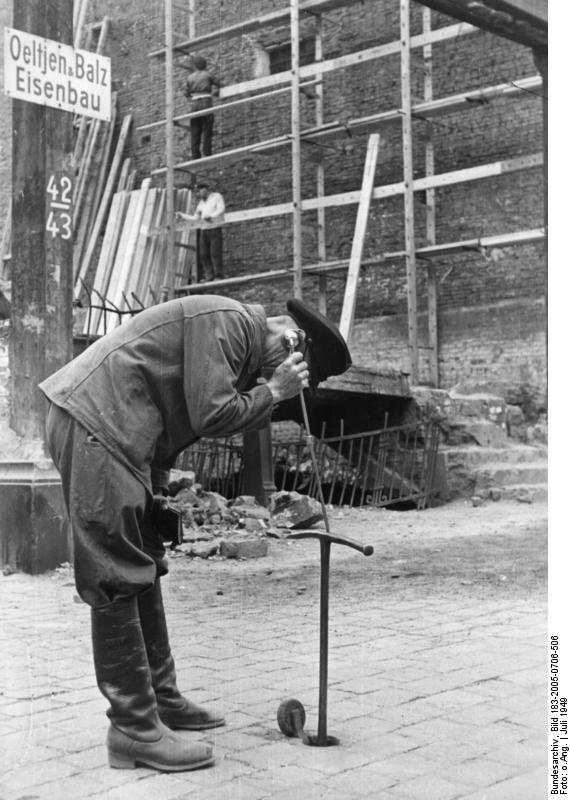 Translation of the original caption from the German Federal Archive: Hamburg, Water detector at work A new profession, which would be a consequence of the bombing war, is that of the water detector. In fiscal year 1948, the Hamburg Water Works had a loss of 28.8 million cubic meters of water, i.e. 26% of the annual supply, caused by damaged pipes, especially in areas damaged by bombing. Two-man troops are now being used to find the "culprits" with the aid of a device consisting of a sensitive membrane. July 7, 1949 Illustration-dpd 3569-49